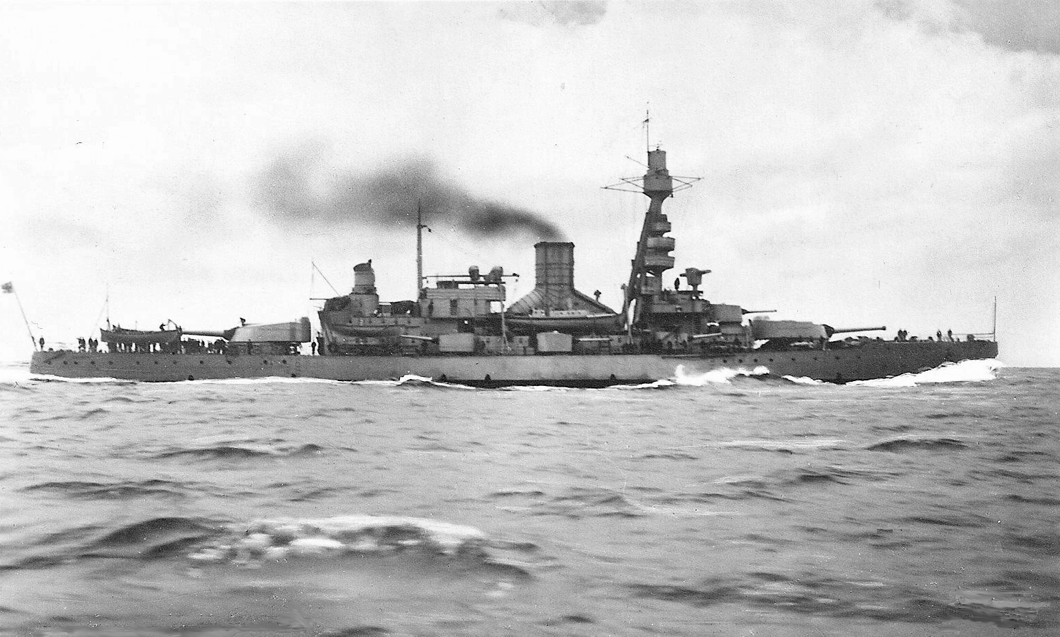 Swedish coastal defence ship HMS Gustav V under way. The two funnels were combined into one in 1930 so the picture must have been taken after that year.